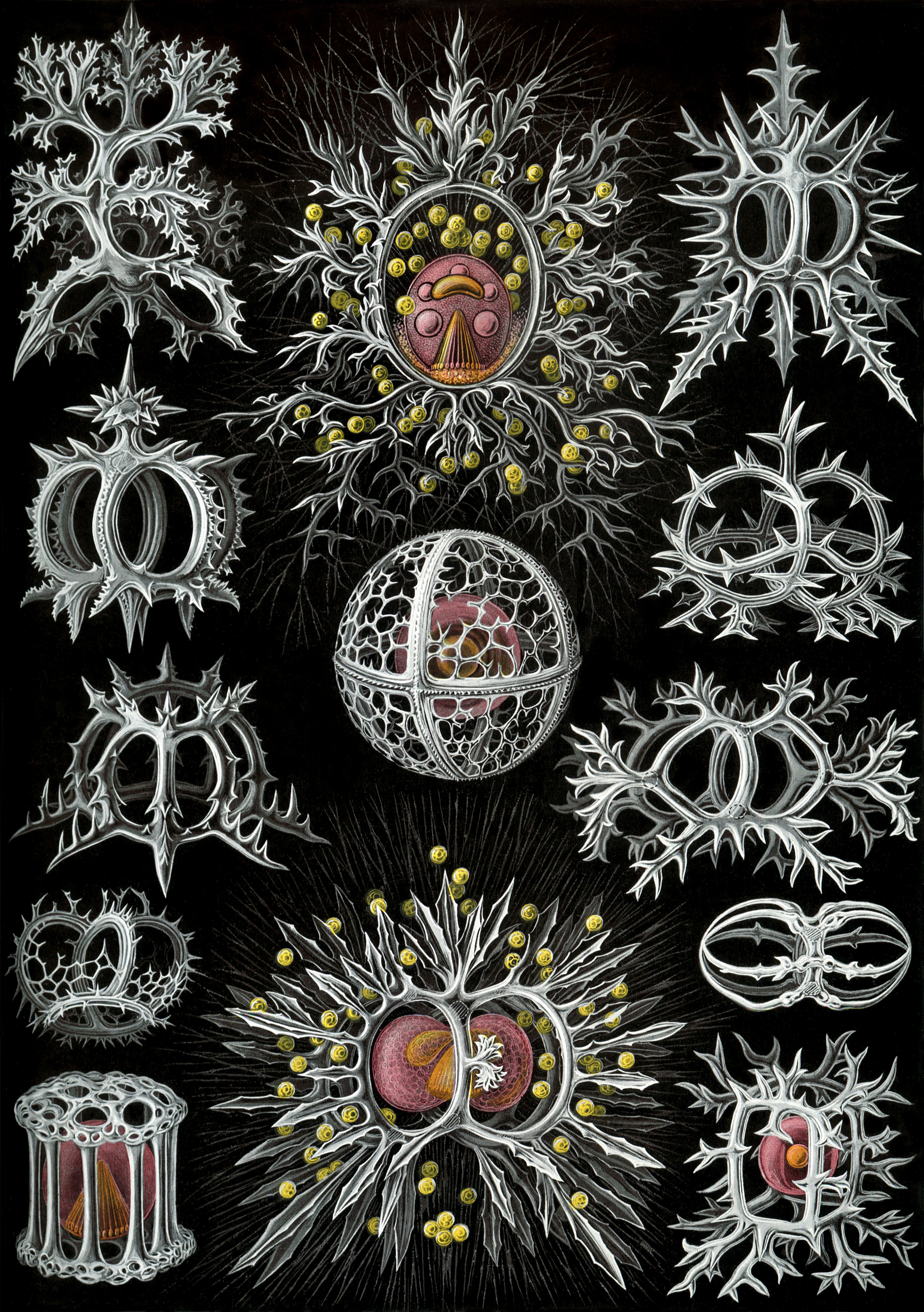 (top center): Lithocircus magnificus (Haeckel) = Lithocircus sp.?, living animal (top left): Semantis sigillum (Haeckel) = Tholospyris procera Goll, 1969?, skeleton of juvenile (bottom left, upper): Acanthodesmia corona (Haeckel) = Acanthodesmia sp?, skeleton (center right, upper): Tristephanium dimensivum (Haeckel) = Tristephanium dimensivum Haeckel, 1887?, skeleton (center): Trissocyclus sphaeridium (Haeckel) = Trissocyclidae sp.?, living animal (center right, lower): Octotympanum cervicorne (Haeckel) = Acanthodesmia viniculata (Müller, 1857)?, skeleton (bottom right, upper): Microcubus zonarius (Haeckel) = Amphispyris zonarius (Haeckel, 1887)?, skeleton (top right): Tympaniscus tripodiscus (Haeckel) = Trissocyclidae sp.?, skeleton (center left, upper): Tympaniscus quadrupes (Haeckel) = Trissocyclidae?, skeleton (bottom center): Tympanidium foliosum (Haeckel) = Tympanidium foliosum Haeckel, 1887, living animal (bottom left, lower): Lithotympanum tuberosum (Haeckel) = Lithotympanum tuberosum Haeckel, 1887, living animal (center left, lower): Circotympanum octogonium (Haeckel) = Nassellaria sp.?, skeleton (bottom right, lower): Lithocubus astragalus (Haeckel) = Lithocubus ap., living animal